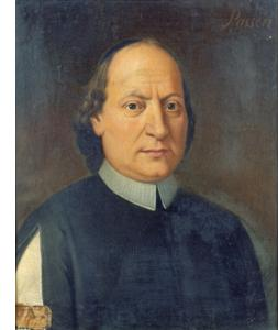 Giovanni Battista Passeri (1694–1780), italian Archaeologist and Classical scholar